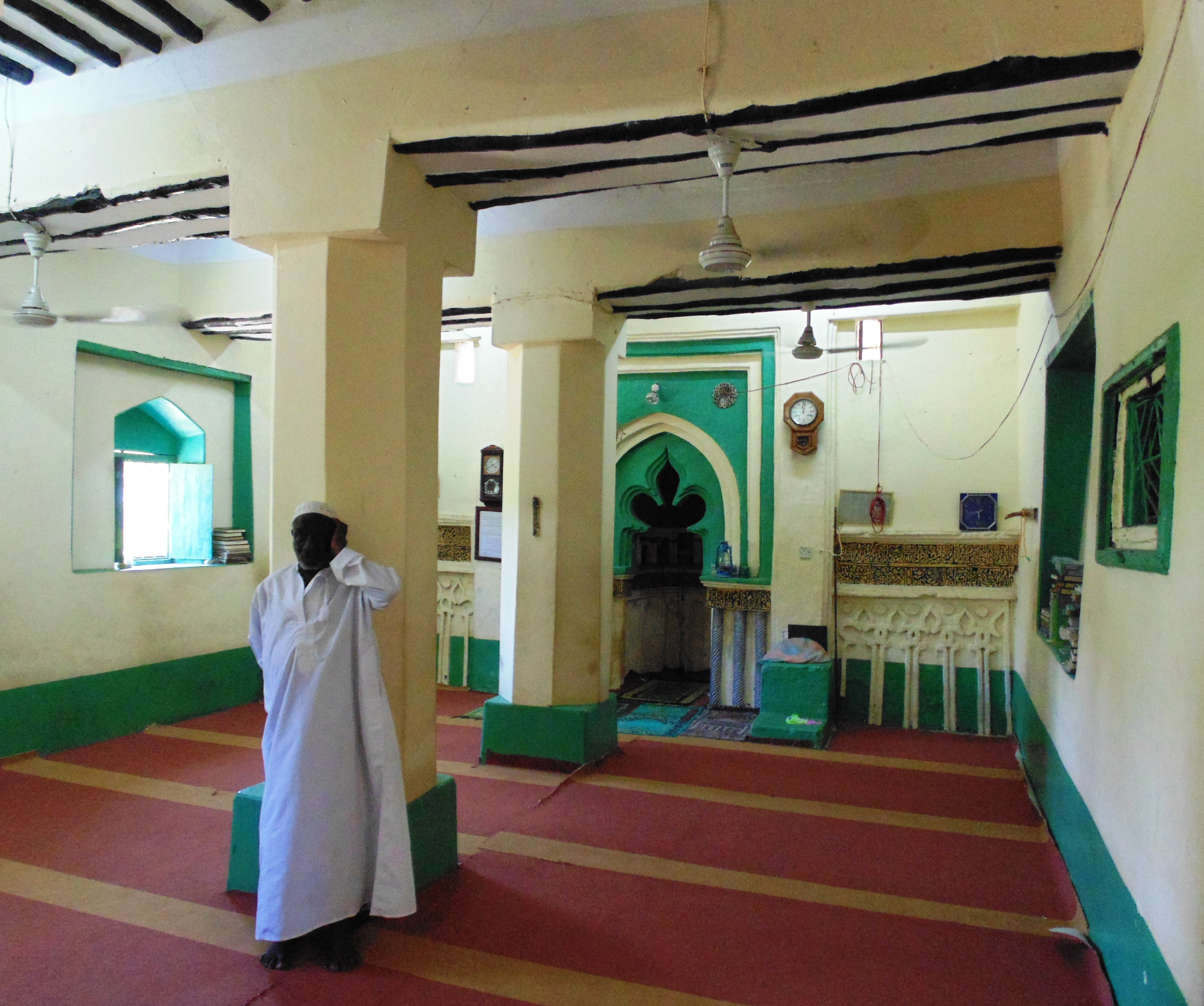 Kizimkazi Mosque